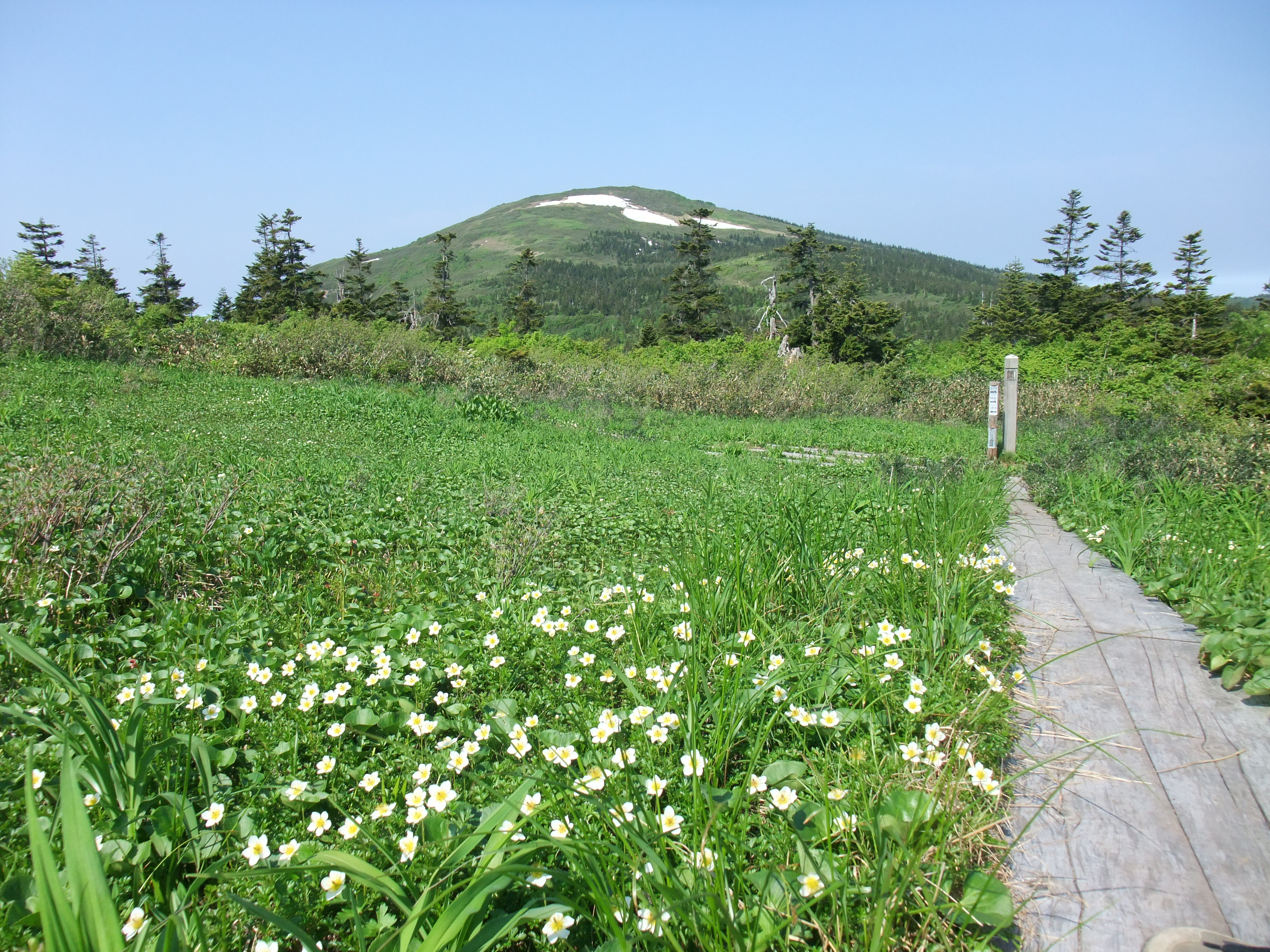 Mount Moriyoshi (Moriyoshizan) seen from Hibakura crossing